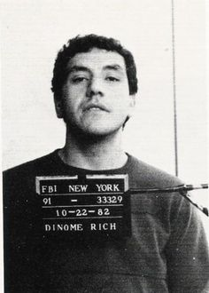 Mobster Richard DiNome in 1982